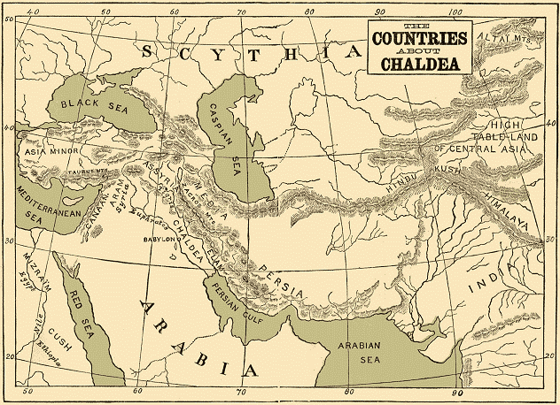 Map entitled The Countries around Chaldea